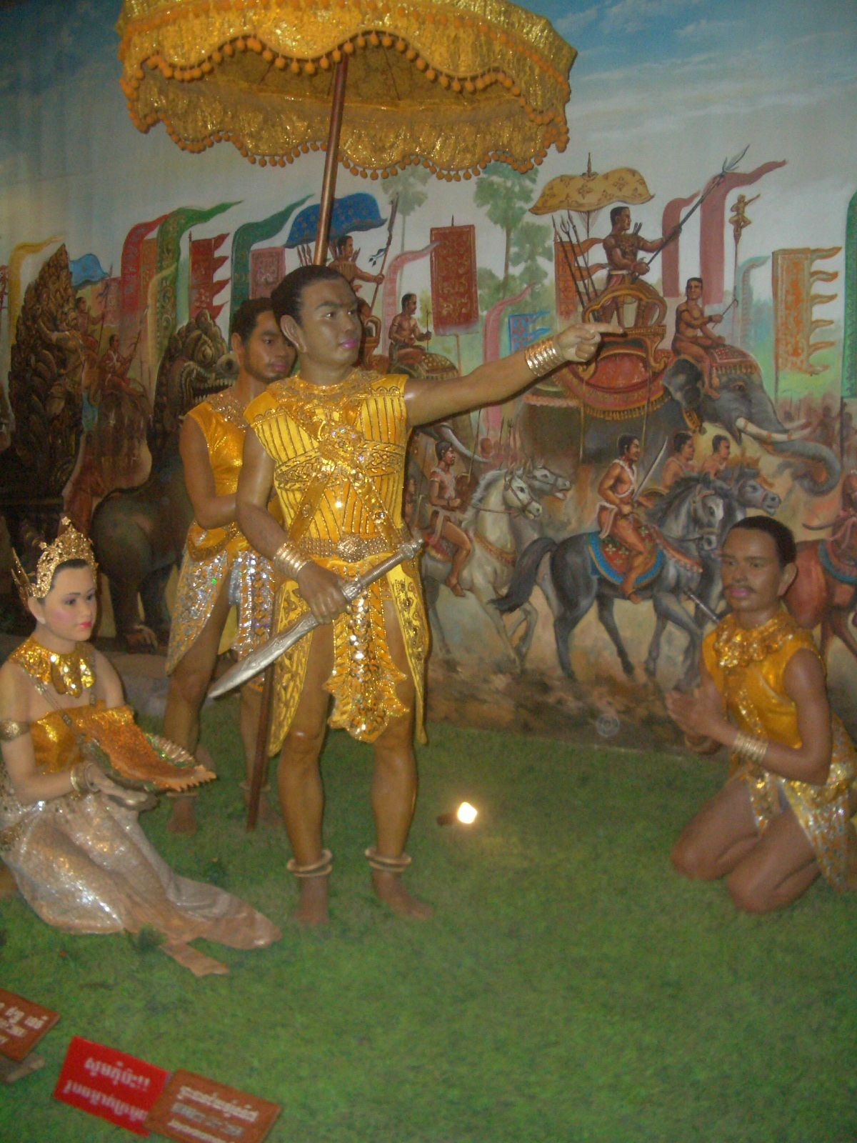 Jayavarman VII Wax in Seamreap